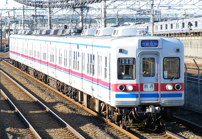 A Keisei 3300 series EMU on the Keisei Chiba Line in Chiba, Japan